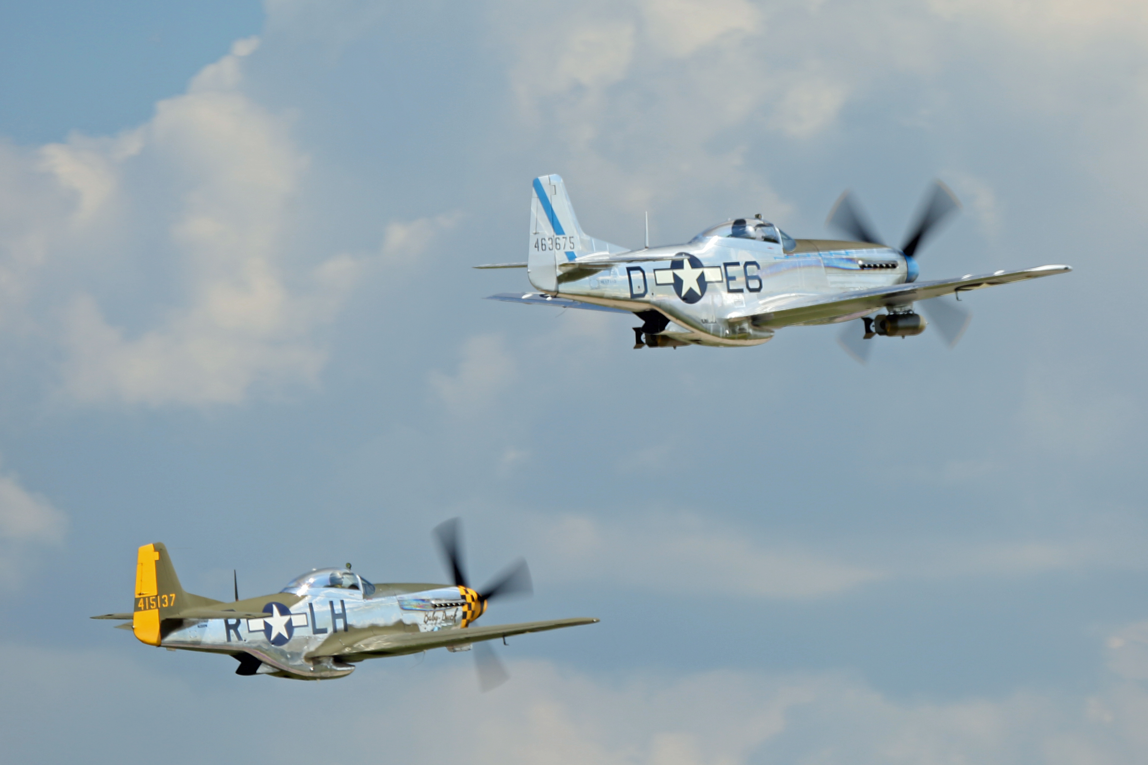 North American P-51 Mustang